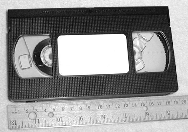 Photograph of a VHS cassette and a metric ruler. Dimension: 187 x 104 mm; thickness: 24 mm. Title of work has been edited out for copyright reasons.